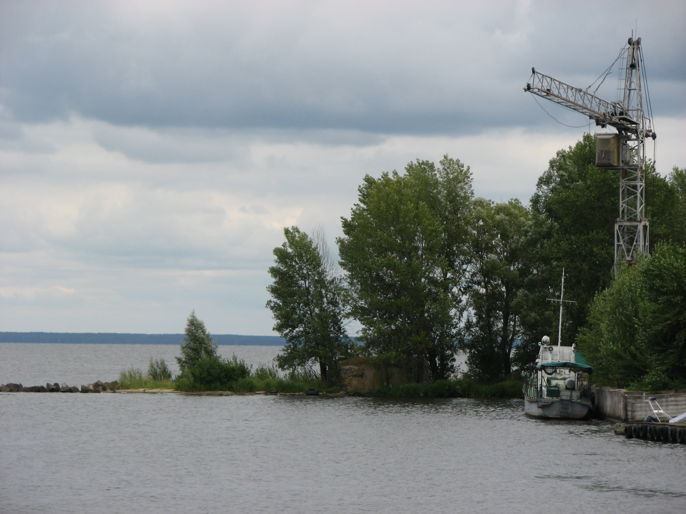 Pillbox 580 (Kyiv Fortified Region)